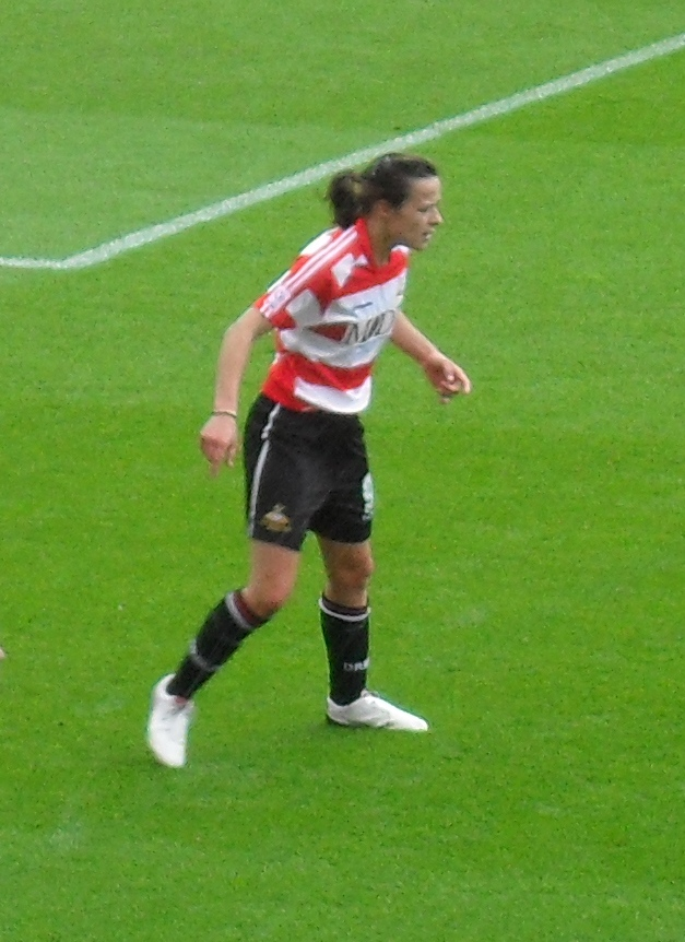 Doncaster Rovers Belles LFC footballer Aine O'Gorman at a WSL game against Birmingham City LFC at Keepmoat Stadium